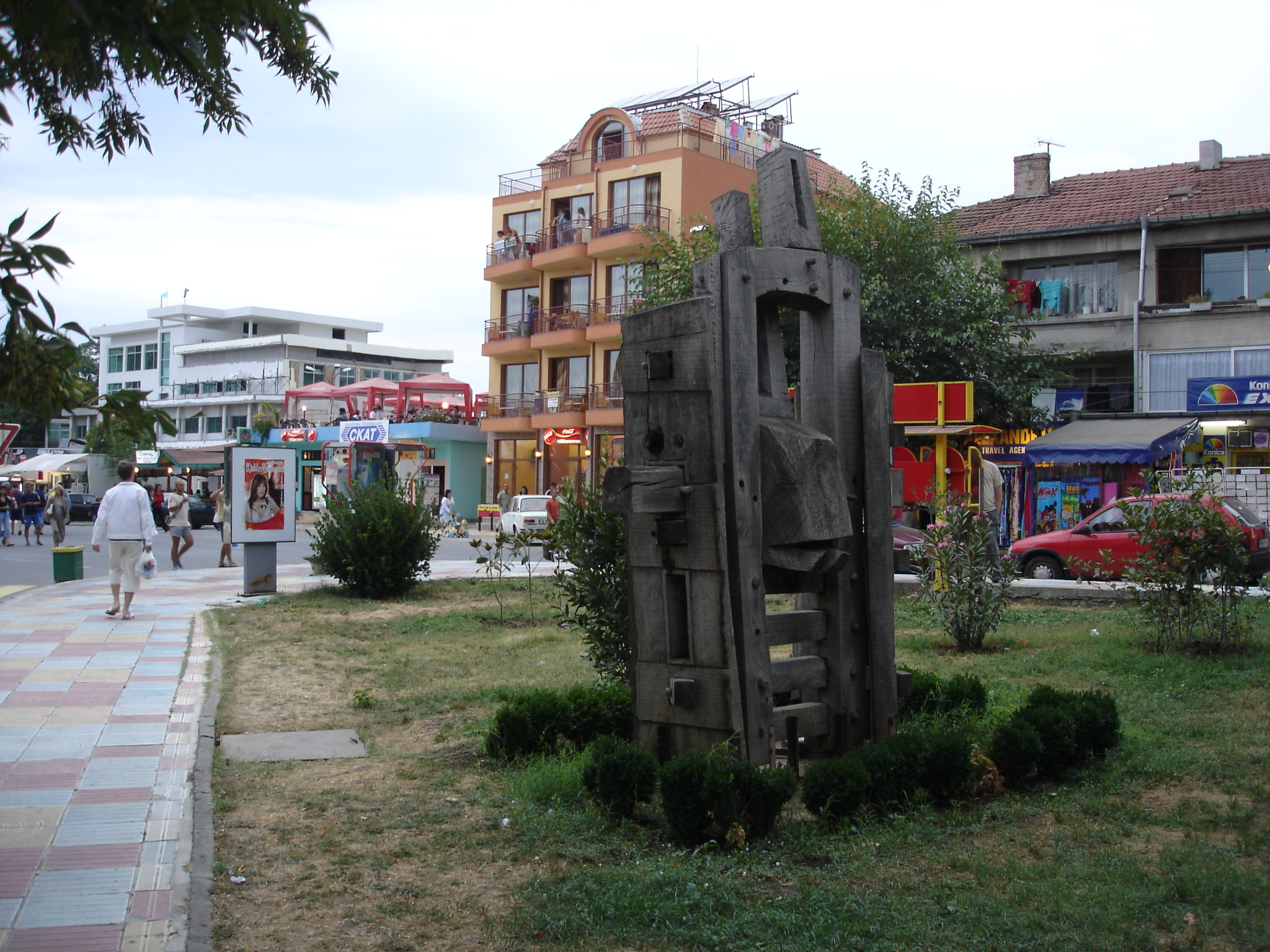 Town Primorsko, Bulgarian Black Sea Coast